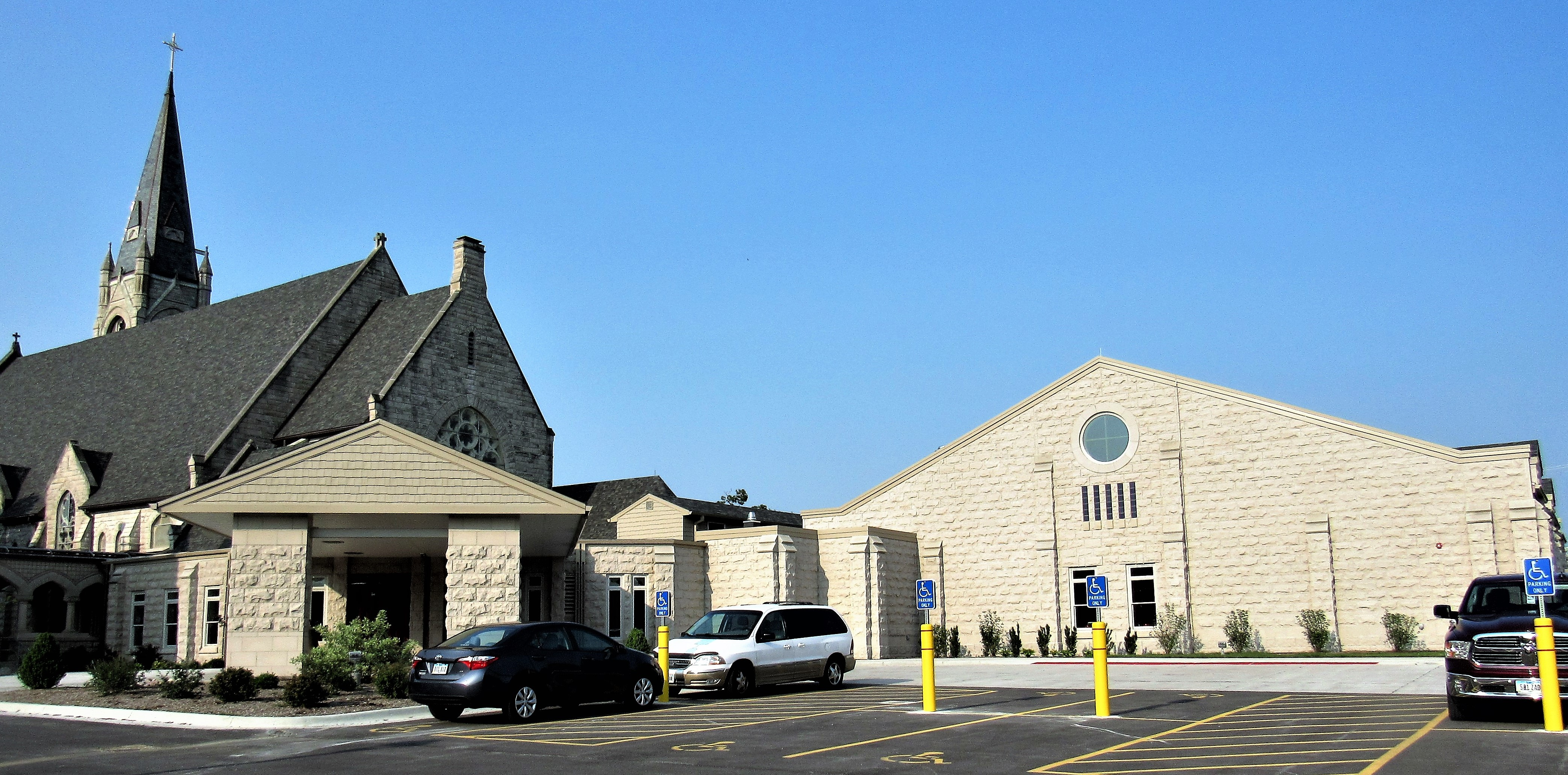 Sears Center Diocesan Hall at Sacred Heart Cathedral in Davenport, Iowa.